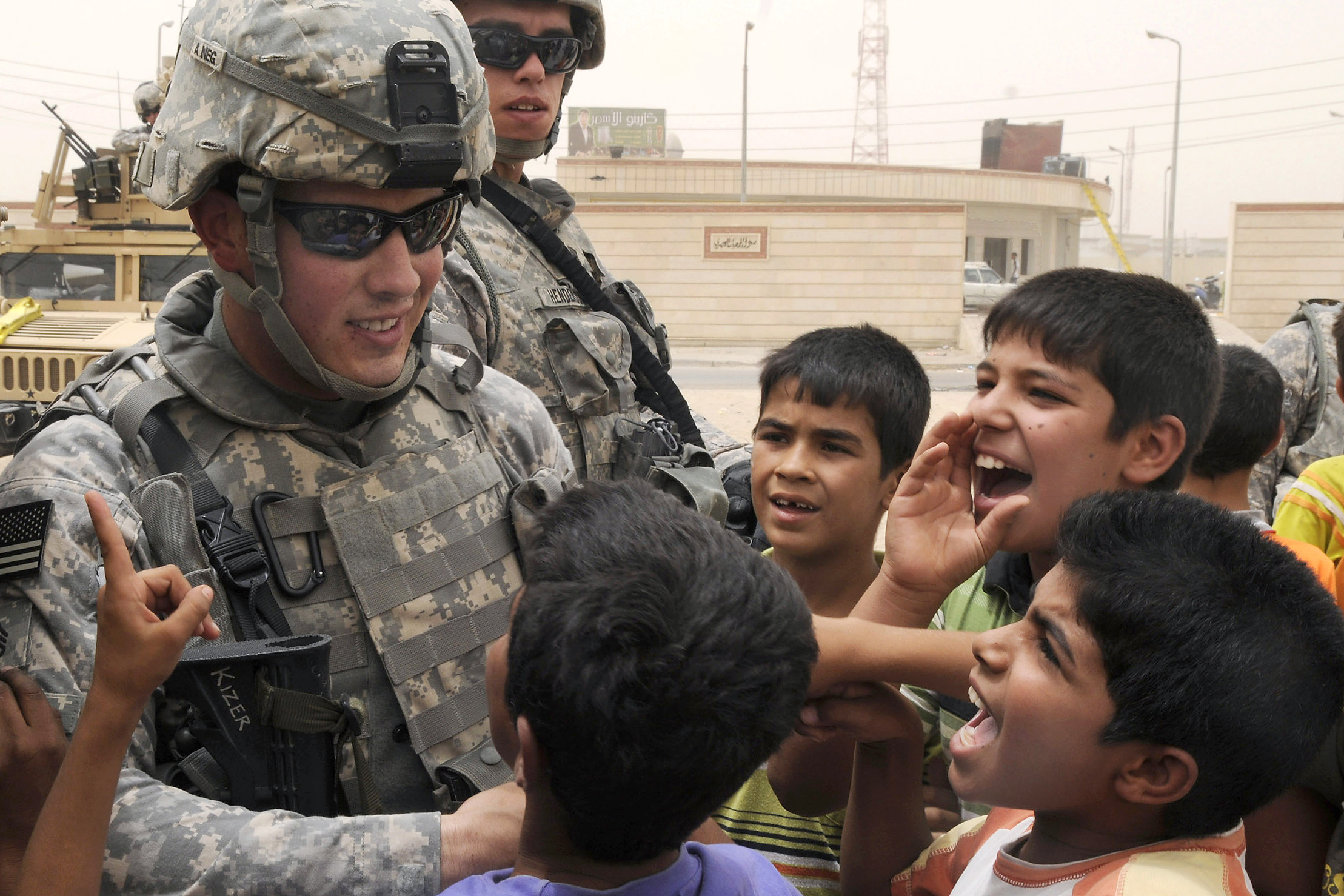 U.S. Army Staff Sgt. Victor Kizer passes out toys to local Iraqi children while fellow Soldiers assess construction progress on the Basra Talent School and the Al Jameat and Al Quibla markets, Basra in Iraq, July 29, 2009. Kizer is assigned to the 445th Civil Affairs Battalion's Company B. U.S. Army photo by Staff Sgt. Chrissy Best See more at